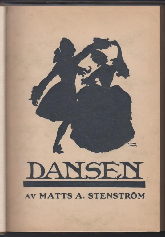 Illustration to book Dansen, by Matts A. Stenström. Published in 1918.